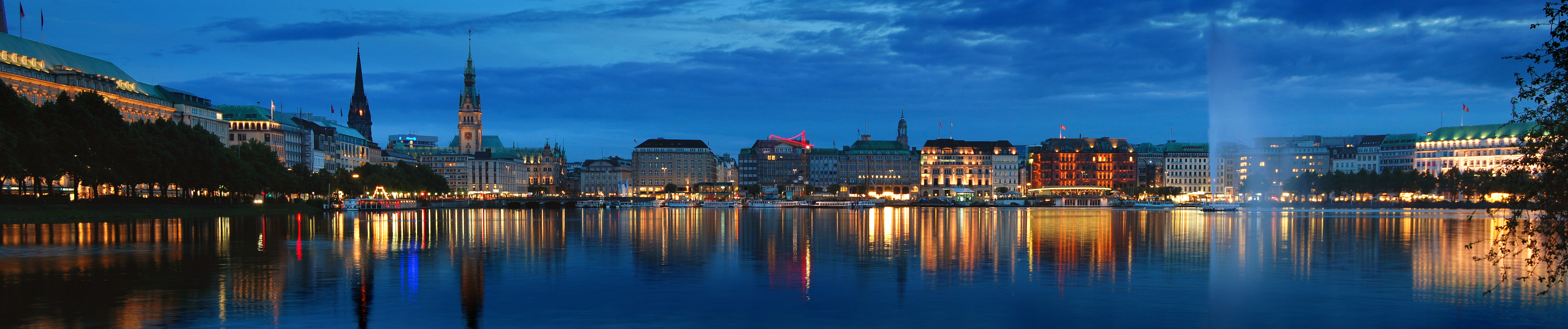 Panoramic view of the Alster